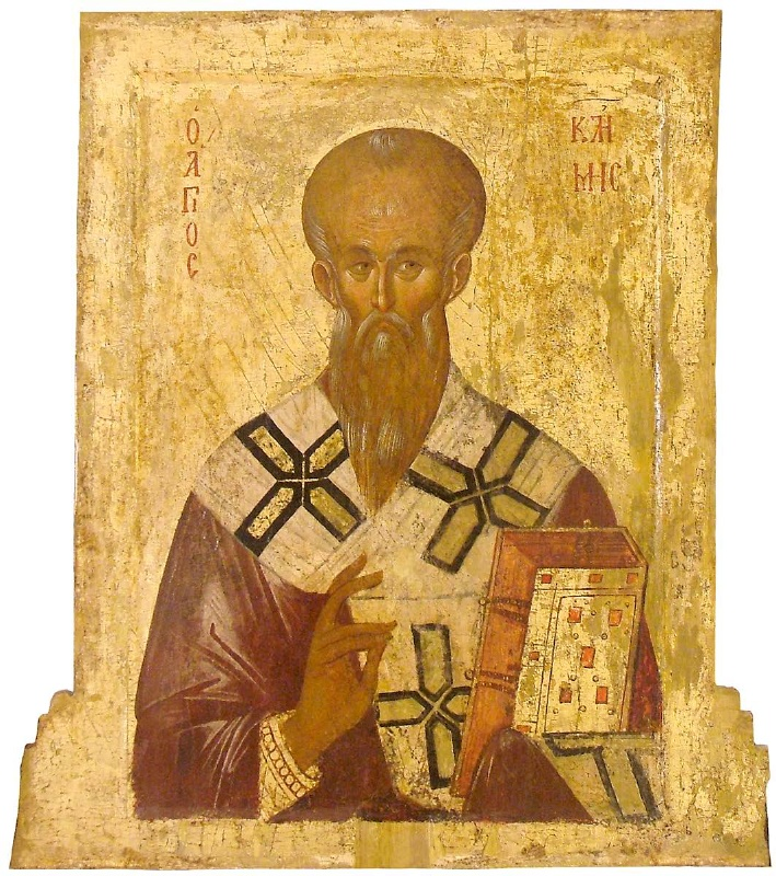 St Clement of Ohrid, Last Quarter of XIV Century, St Mary Perivleptos Church, Ohrid Icon Gallery